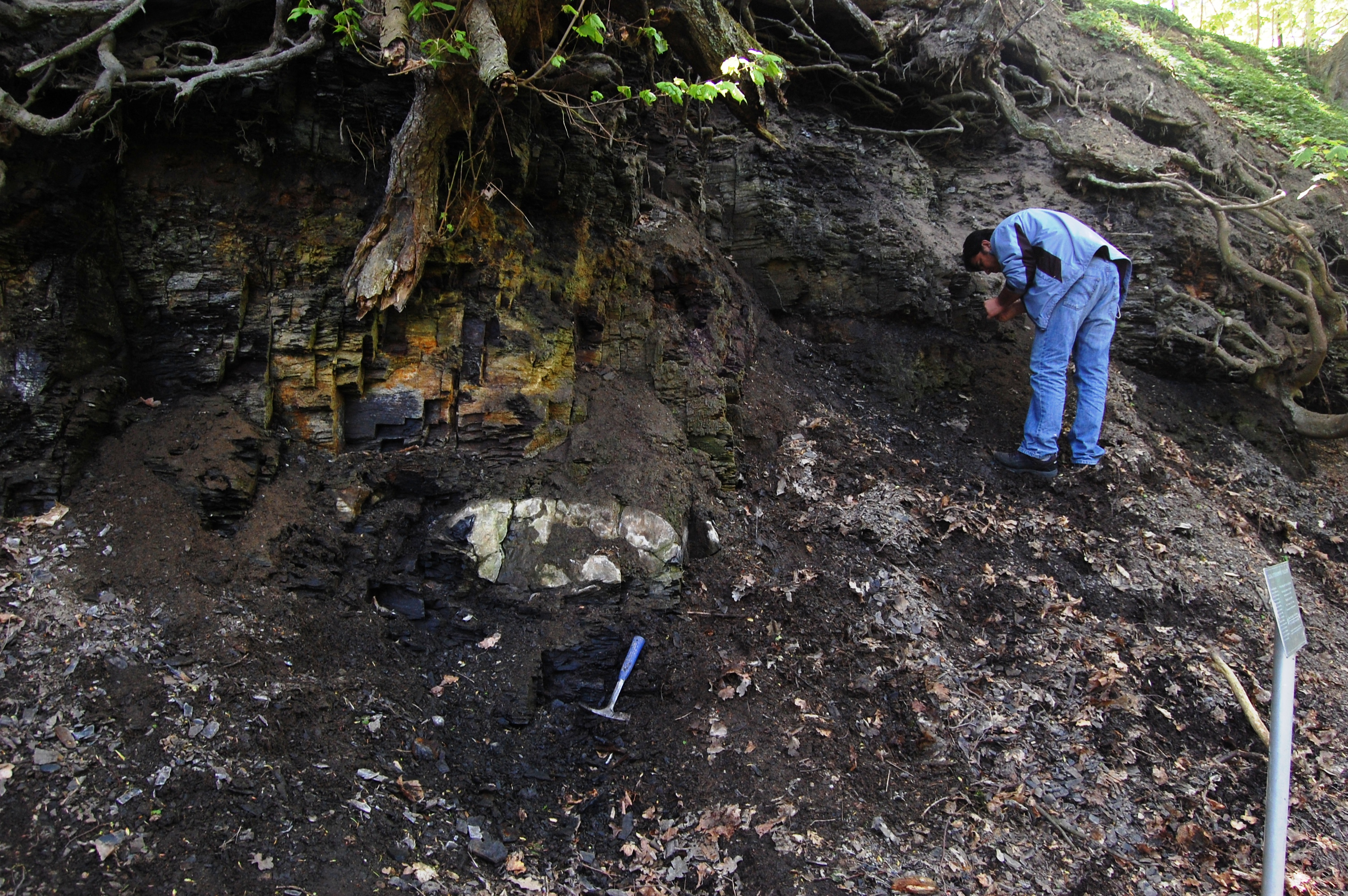 The GSSP of the Upper Ordovician Series and the Sandbian Stage. Hammer indicates the boundary, as identified by the FAD of Nemagraptus gracilis. Section E14b at Fågelsångsdalen nature reserve, some 2 km west of Södra Sandby, Lund Municipality, Skåne, Sweden.